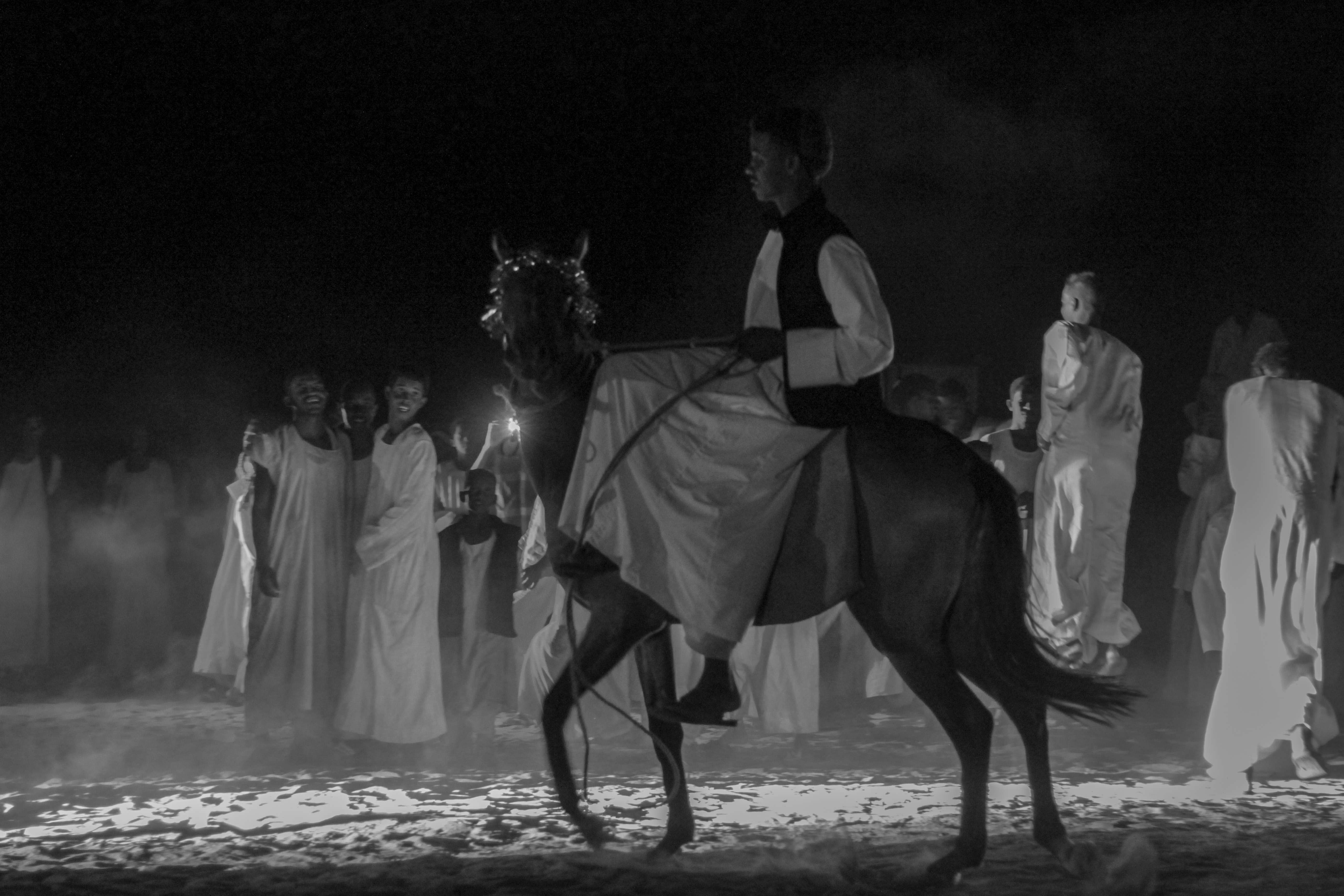 A person dancing with his horse in a celebration This is an image with the theme "Africa on the Move or Transport" from: Sudan